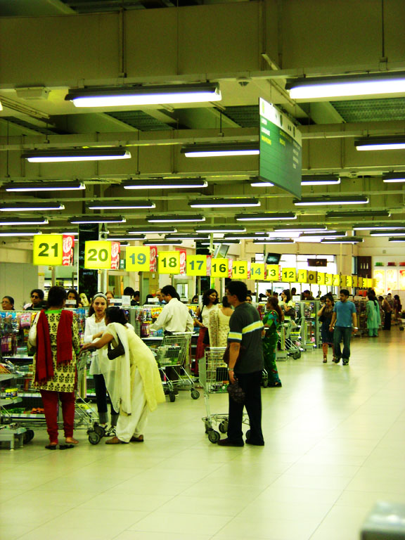 Hypercity mall (Malad, Mumbai) payment counters